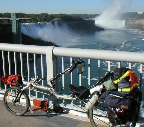 Photo take by Andrew Dressel of a Burley Canto at Niagara Falls